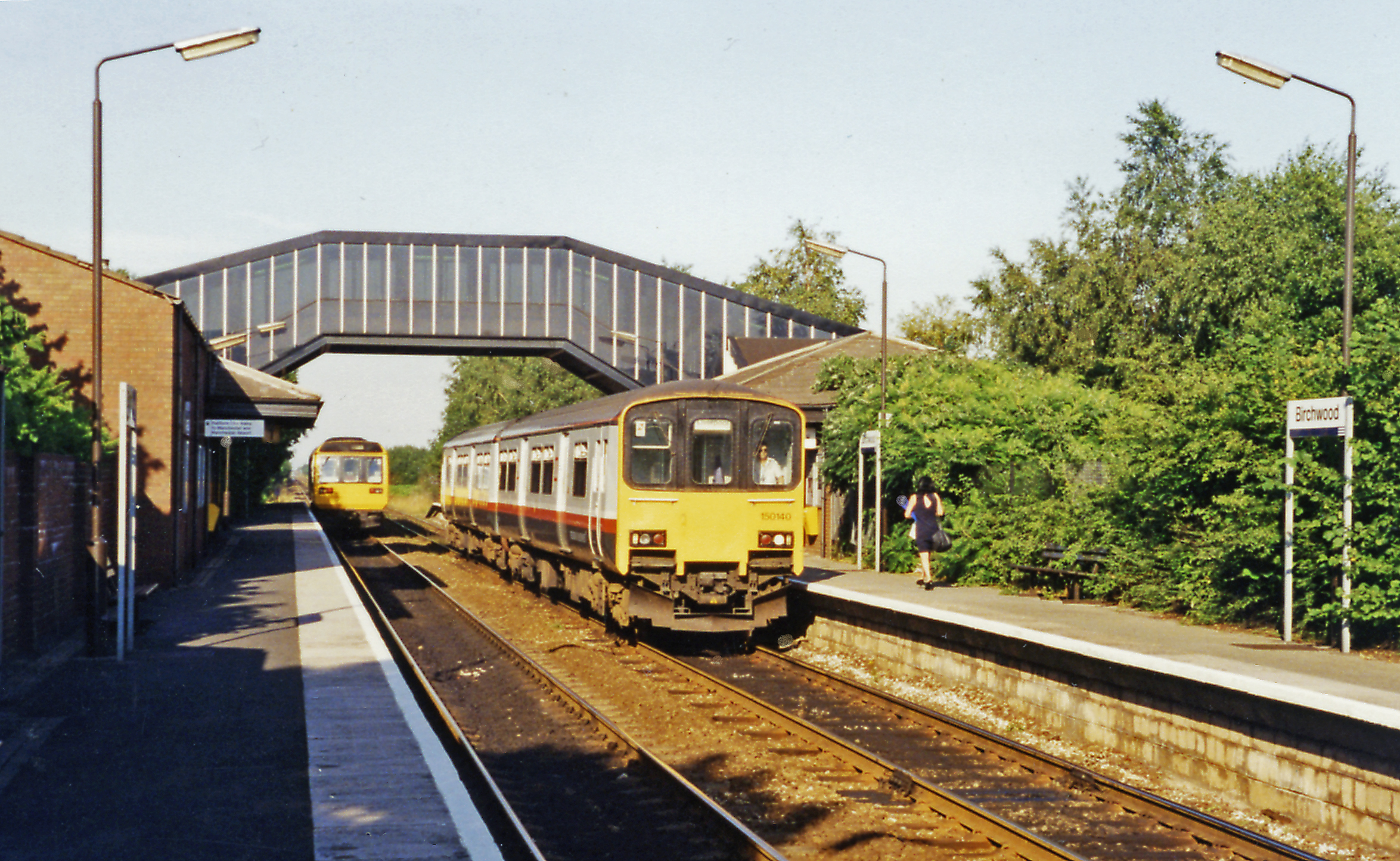 Birchwood station, 1995. View eastward, towards Manchester: ex-CLC Manchester (Central) - Liverpool (Central) main line, since 1969-72 Manchester (Oxford Road) - Liverpool (Lime Street). This is a (relatively) new station, opened 6/10/80. Typical DMUs are seen running each way.